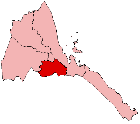 Map of Eritrea showing the Southern Region; created with the GIMP. Made by User:Acntx